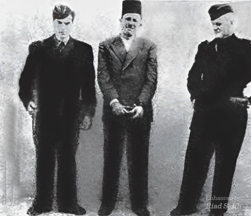 After the arrest of Mustafa Ben Boulaïd (Tunisia) (February 11, 1955).